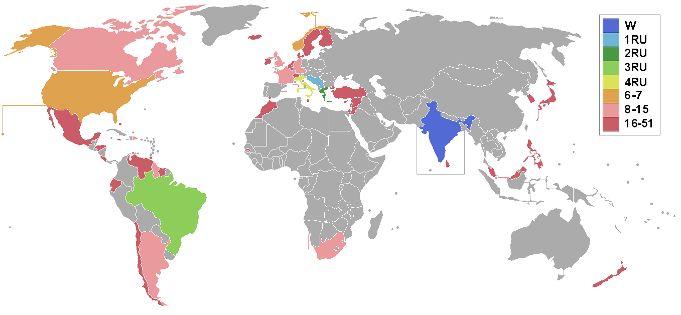 results map